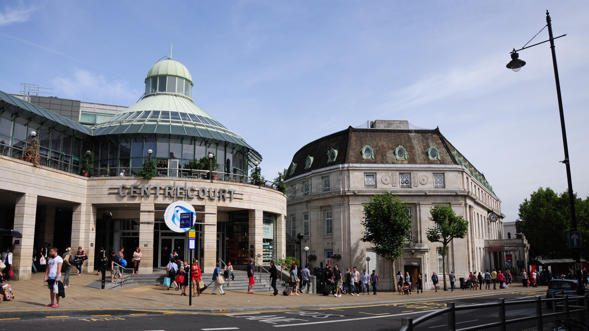 Wimbledon town centre, with the station on the left and the old town hall on the right.